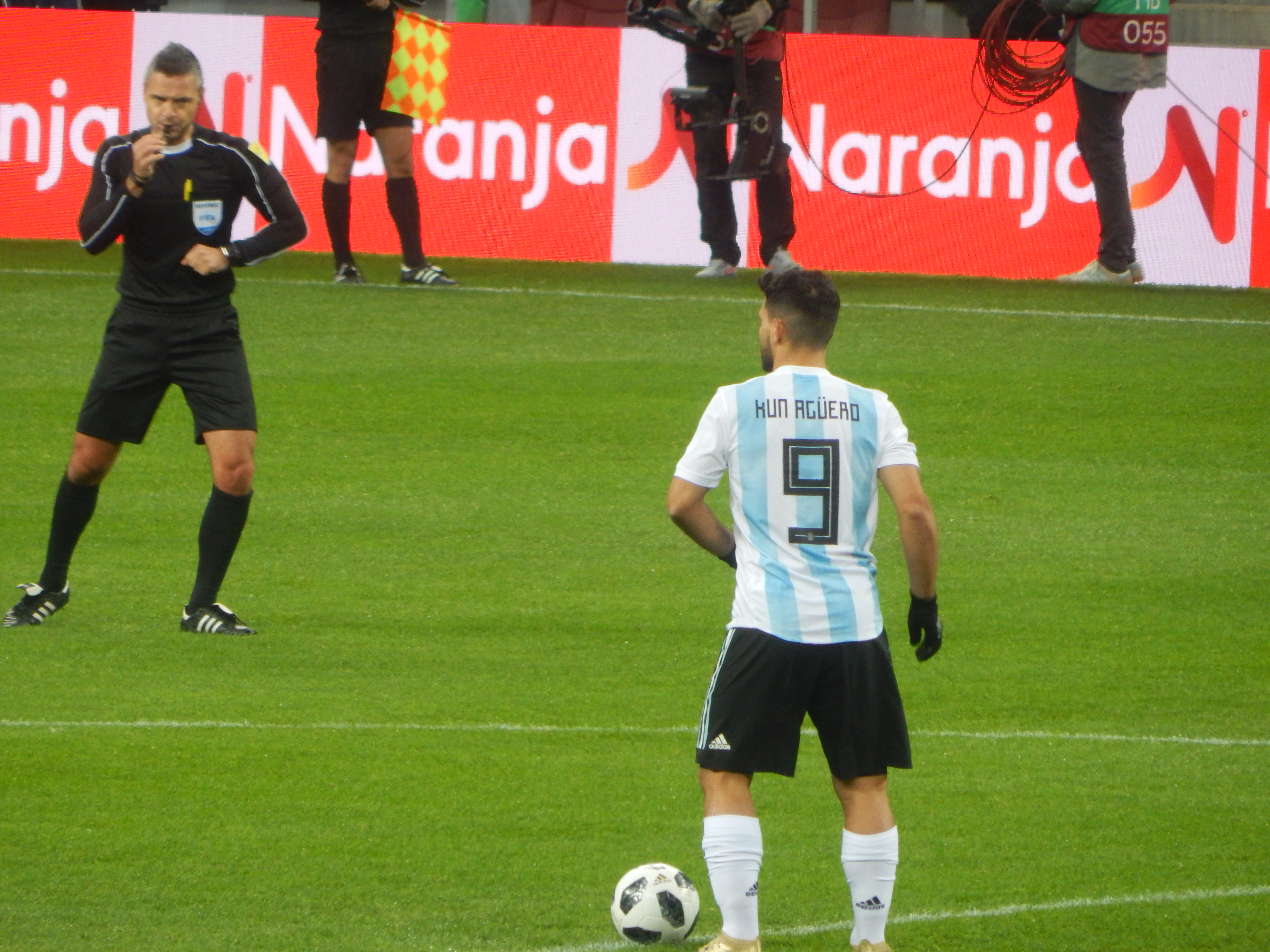 A friendly match between Russia and Argentina in Moscow, Luzhniki stadium, on November 11, 2017. Damir Skomina whistles and Sergio Agüero opens the new Luzhniki stadium